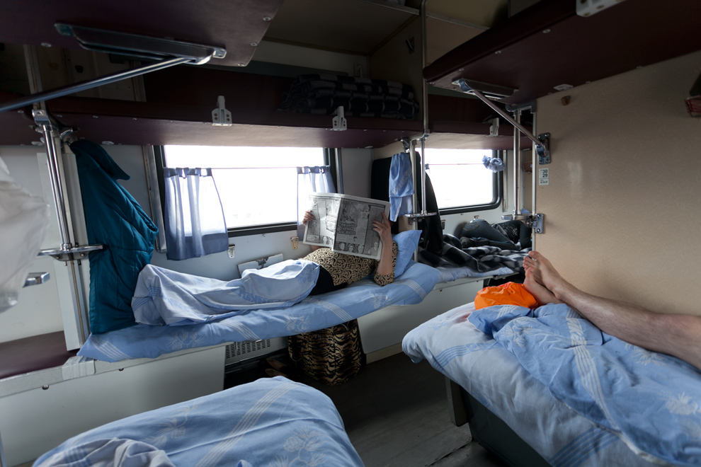 The interior of the train on the Trans-Siberian route trail.